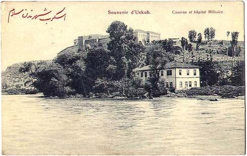 Ancient postcard of Kale fortress, Skopje, Macedonia (early 20th century)